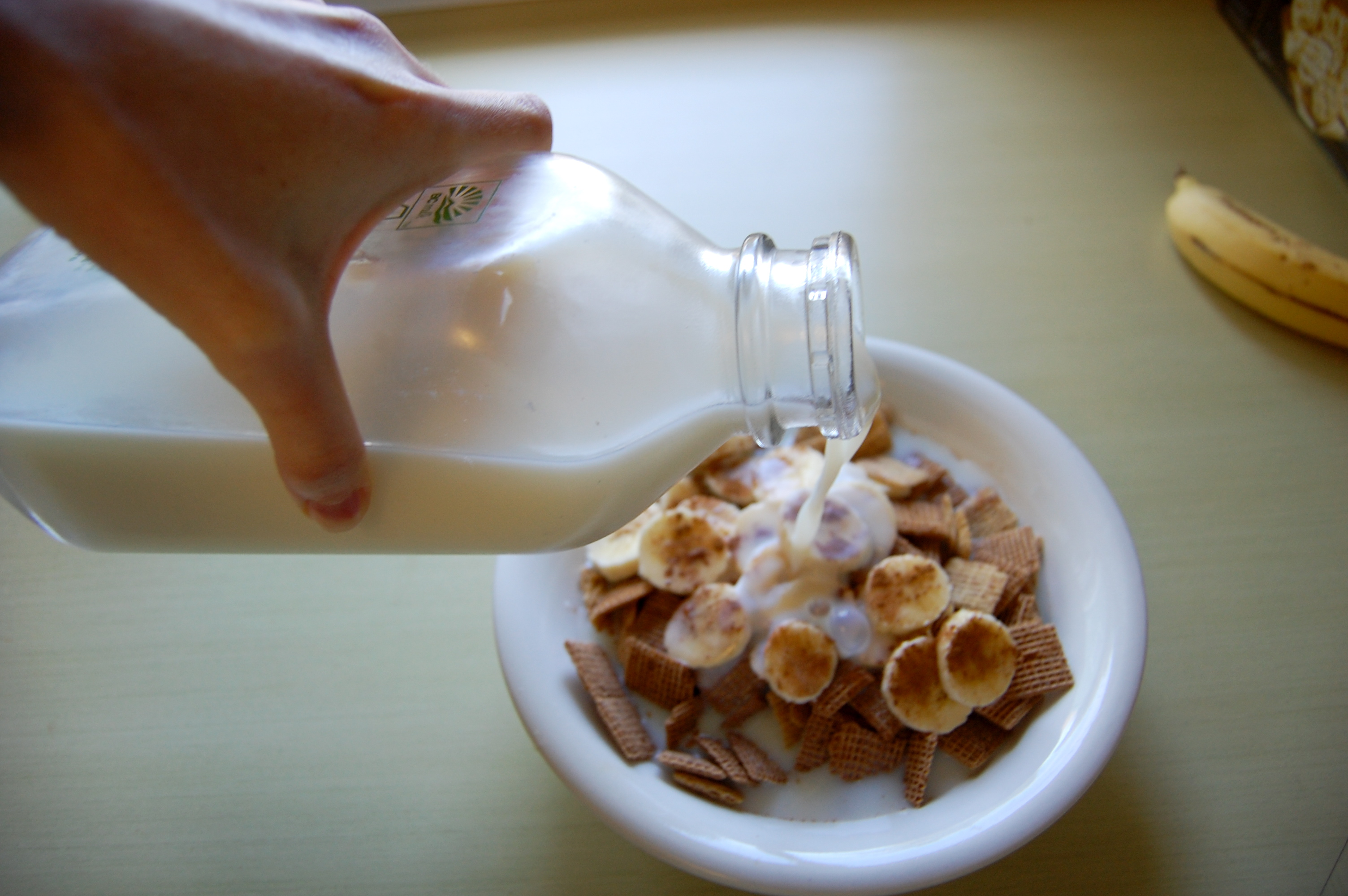 Simple tastes, I have. Cold cereal, banana with cinnamon on top, skim milk. Perfection.